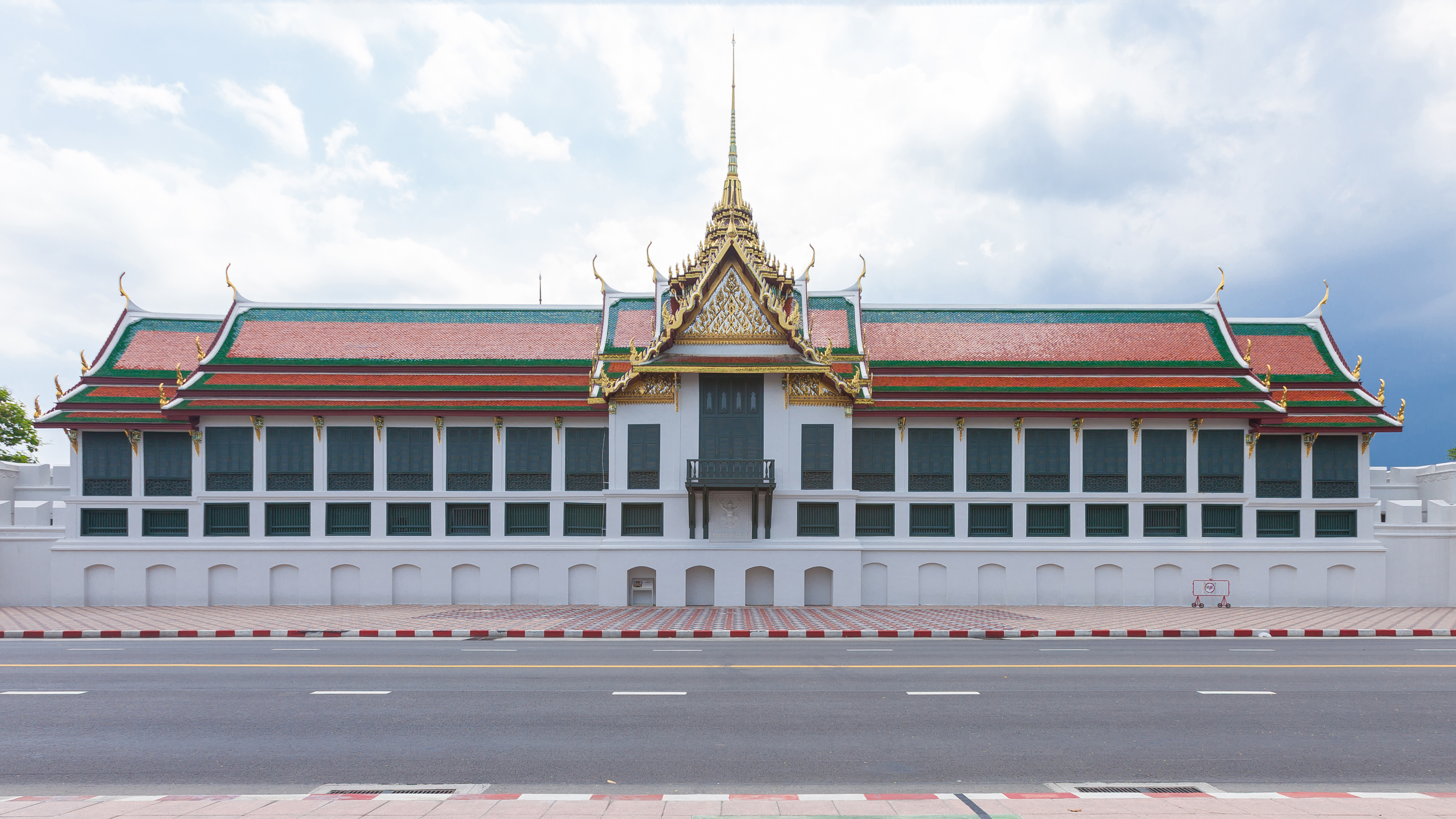 Phra Thinang Sutthai Sawan Prasat of Grand Palace, Bangkok.